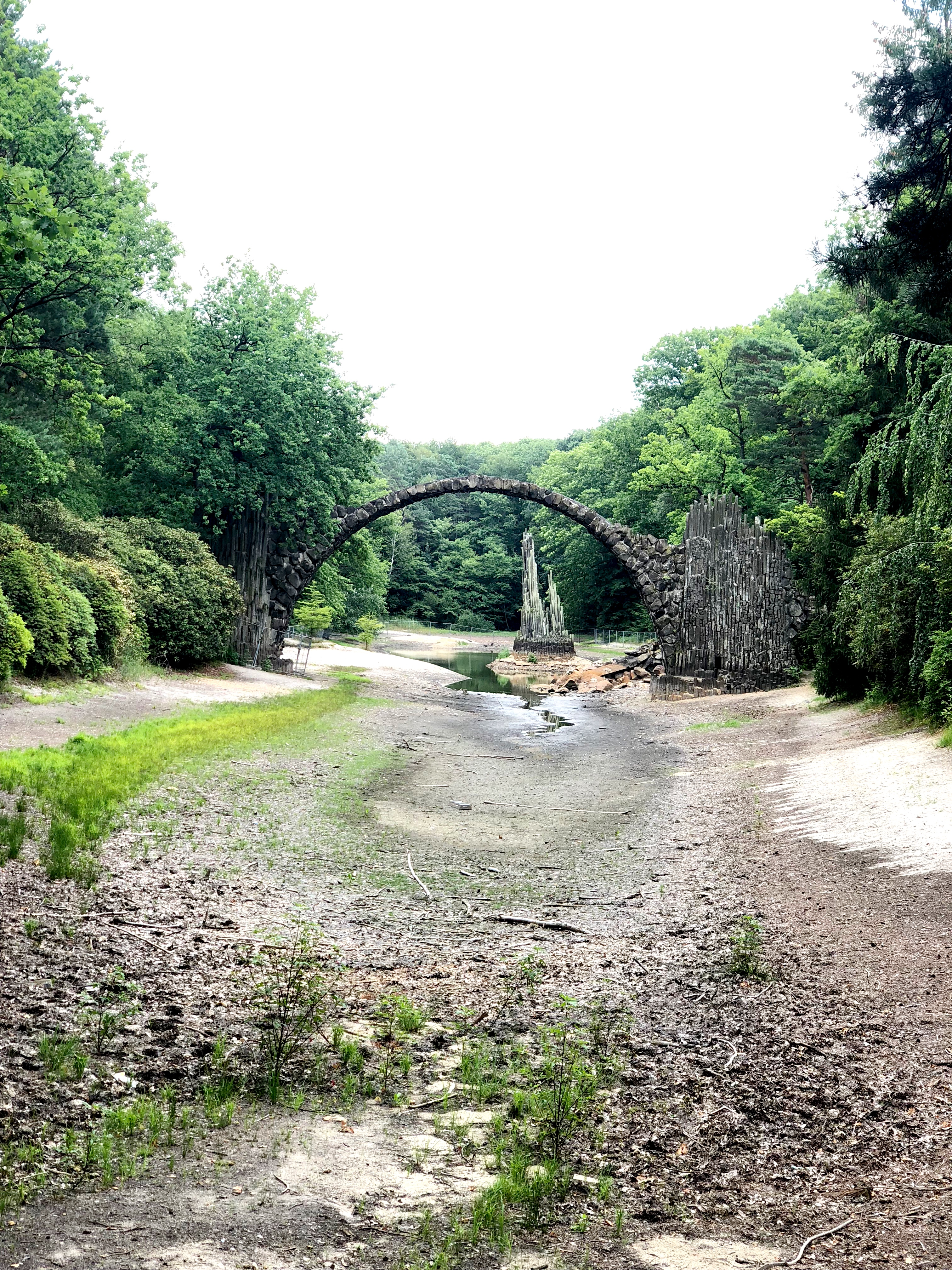 Rakotzbrücke Bridge closed indefinitely no water!